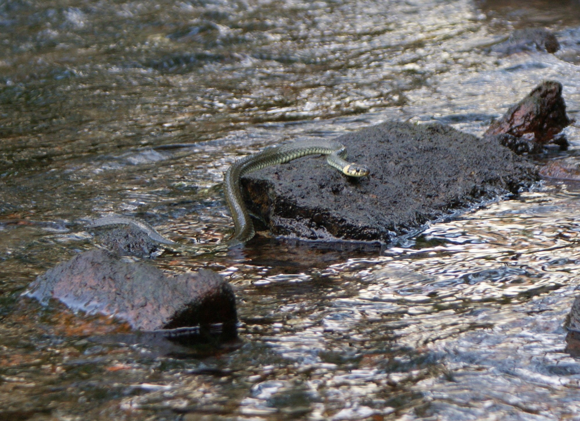 Grass Snake in the Młynówka, in Trzebiatów, Poland